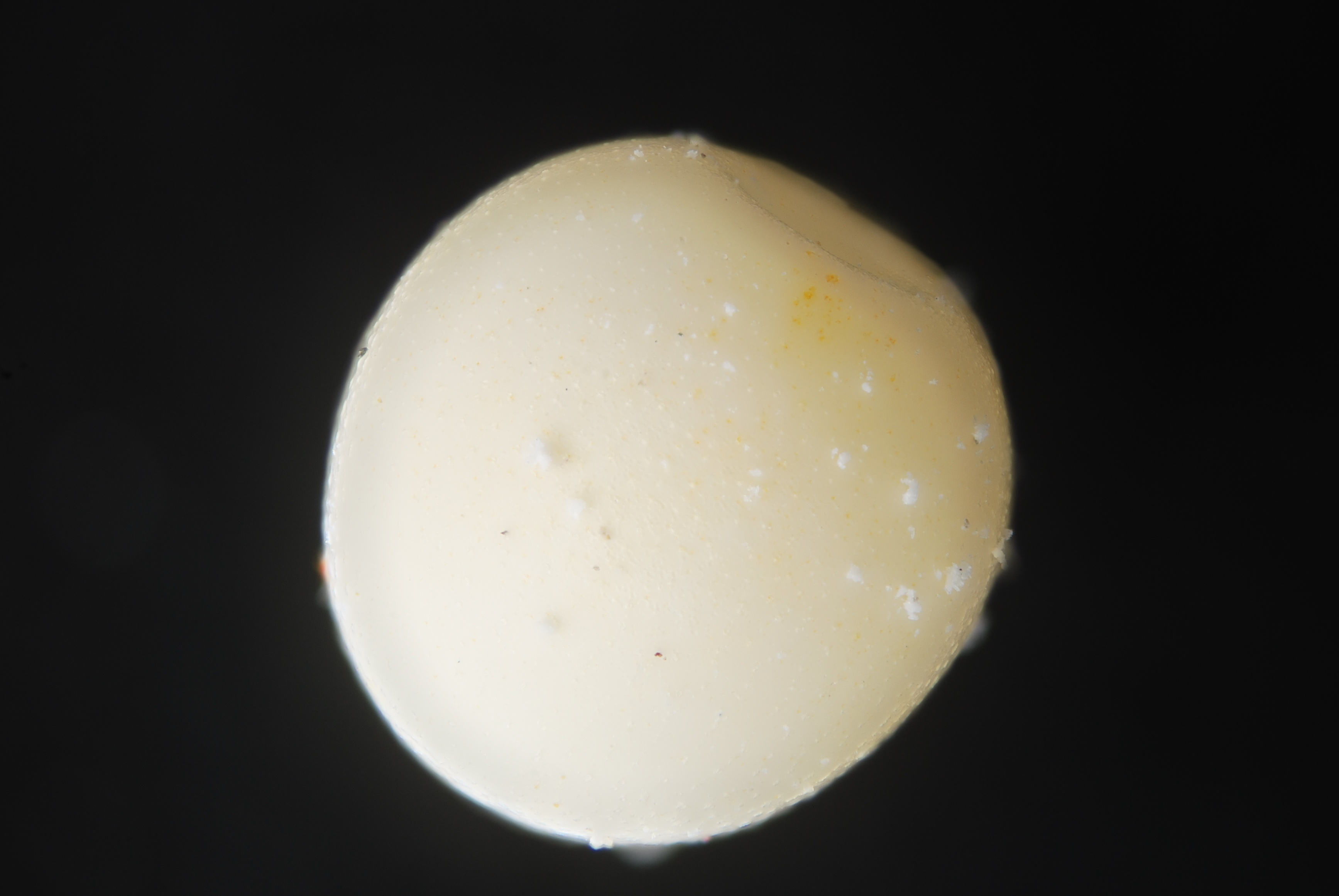 Egg of the butterfly Melanargia galathea (artificial black background). Scale : egg diameter ~ 1mm Technical settings : - focus stack of 39 images - microscope objective (Nikon achromatic 10x 160/0.25) on bellow